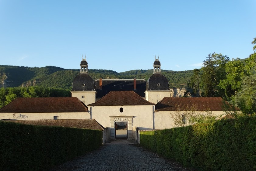 The Castle of Vertrieu, in France.